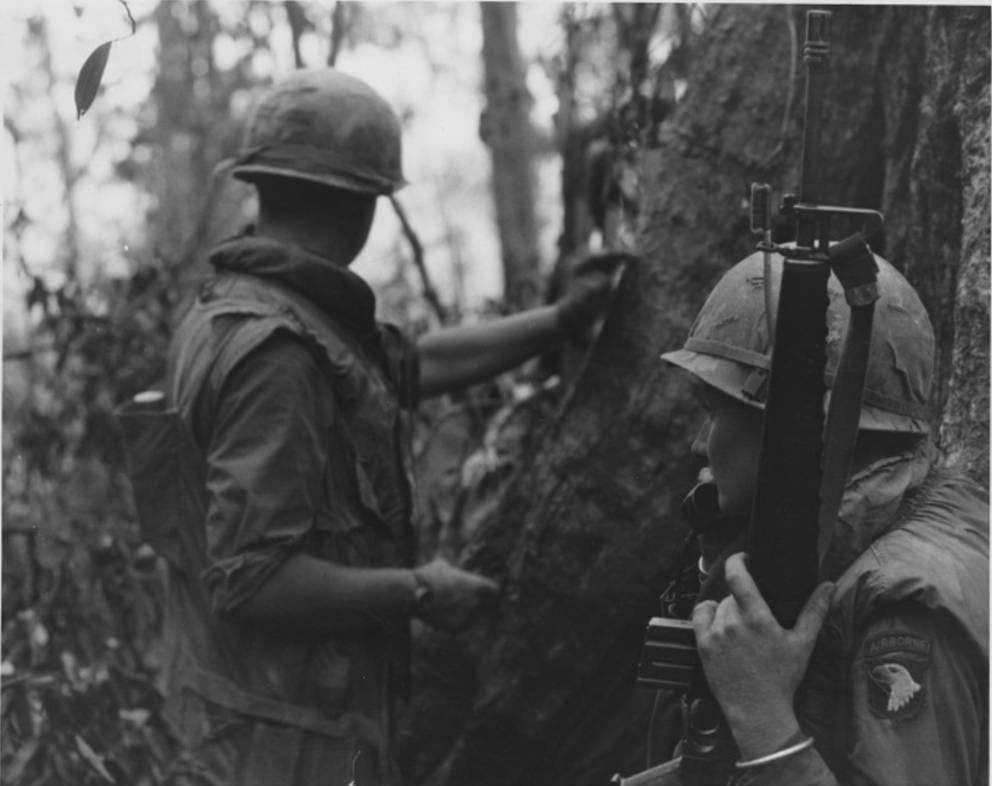 Troopers on patrol in Vietnam; radioing for communication.